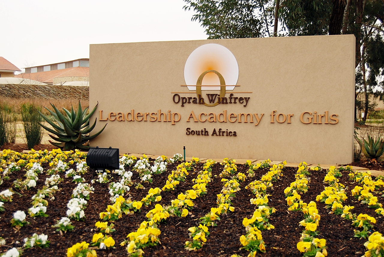 During her visit with Nelson Mandela in December 2000, Oprah Winfrey pledged to build a world-class school for girls in South Africa. Two years later, on 6 December 2002, Mr. Mandela and the then Minister of Education, Professor Kader Asmal, joined Ms. Winfrey to break ground on the site of the Academy - located in Henley on Klip in Gauteng province. In January 2007, we officially opened with 7th and 8th Grade girls. The Academy will grow by one Grade each year until it reaches full capacity in 2011, with approximately 380 students in Grades 7 through 12.